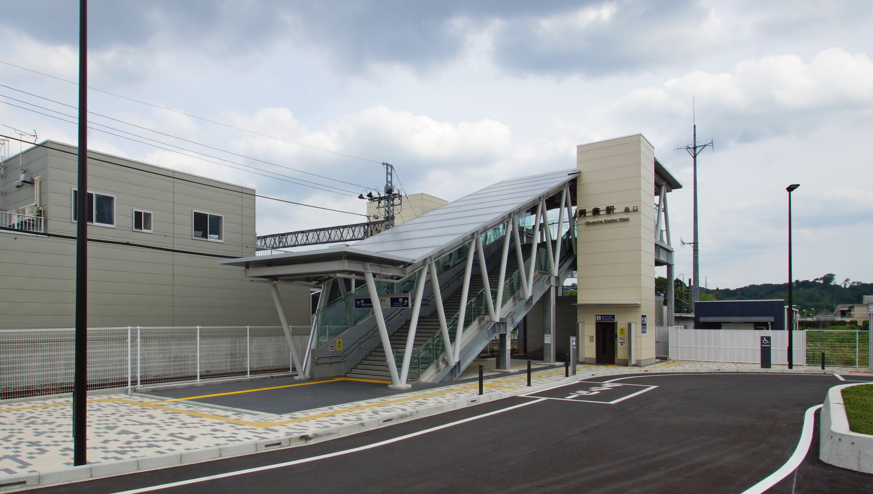 The west entrance to Obusuma Station on the Tobu Tojo Line in Saitama Prefecture, Japan